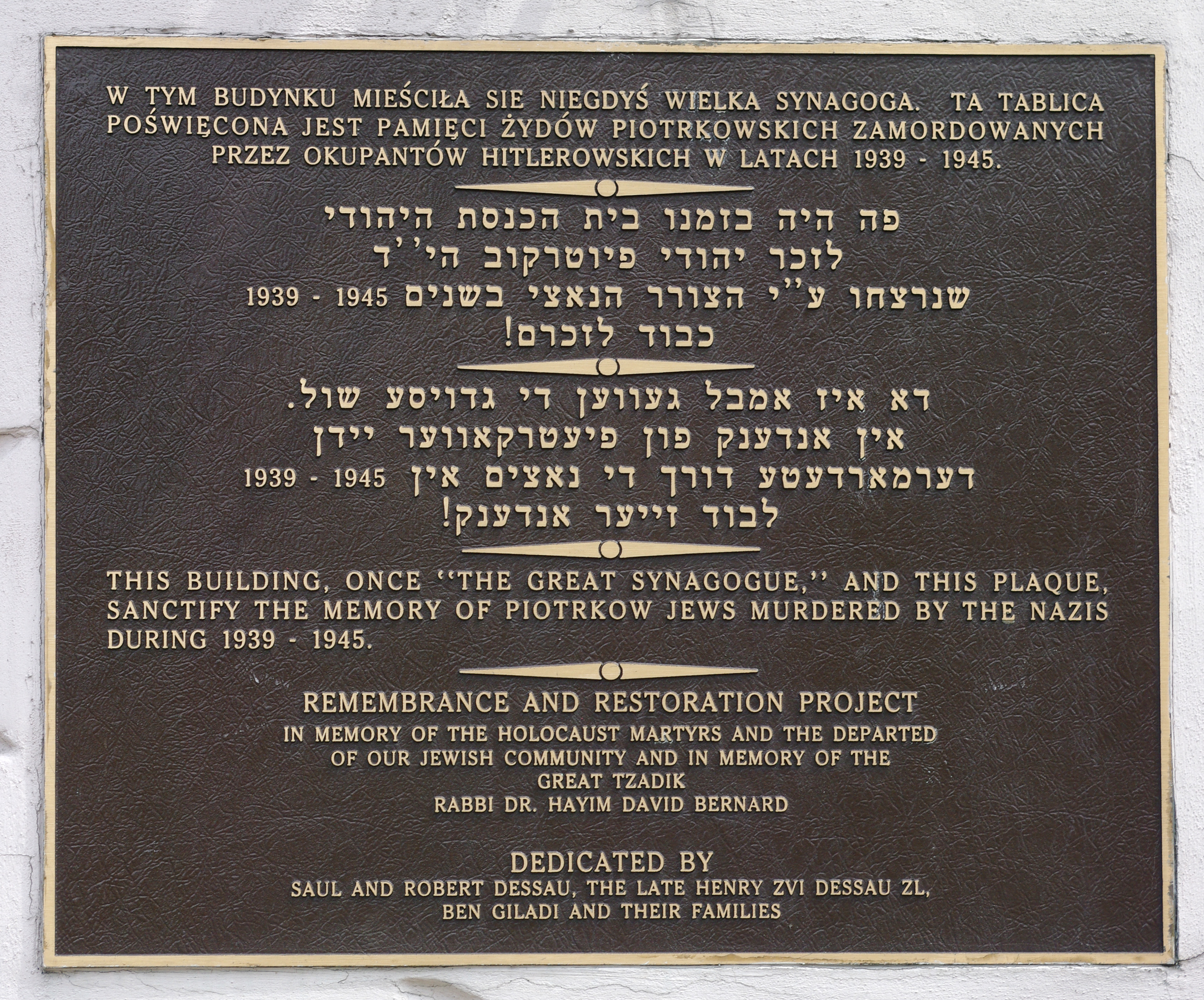 The Great Synagogue in Piotrków Trybunalski (plaque)